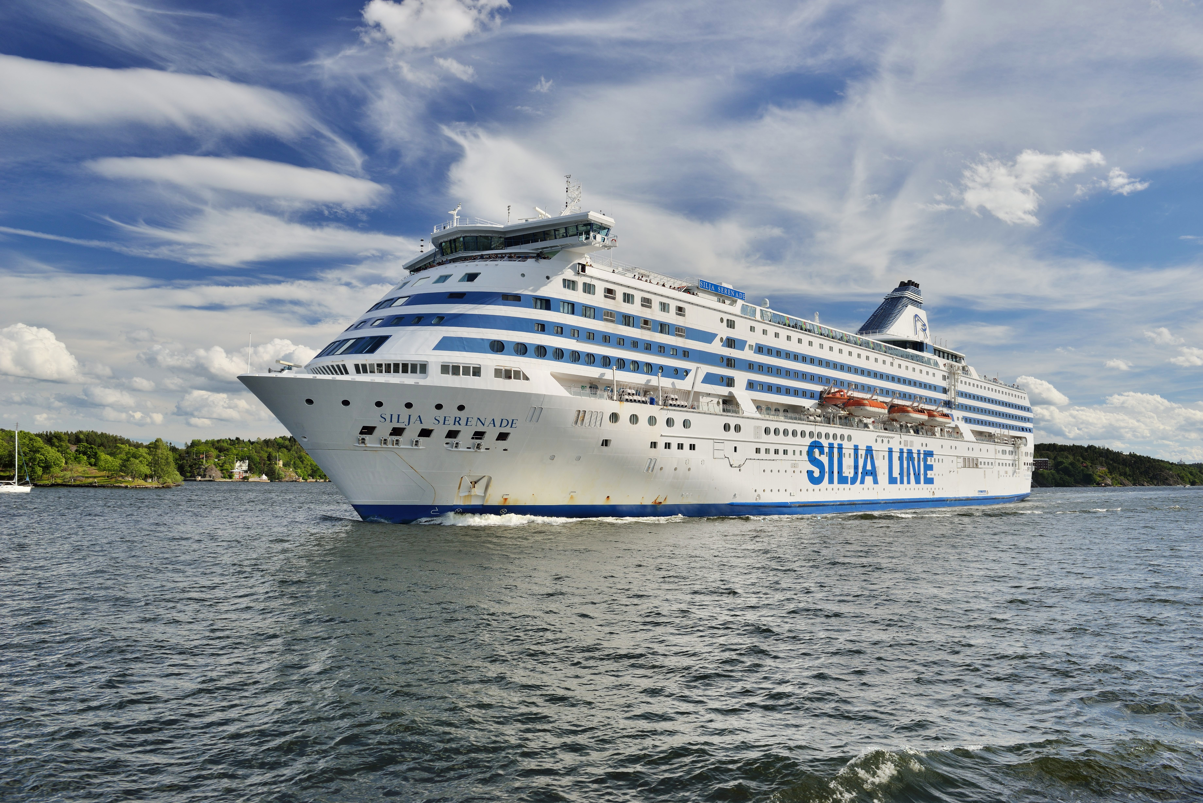 Silja Serenade in archipelagos of Stockholm